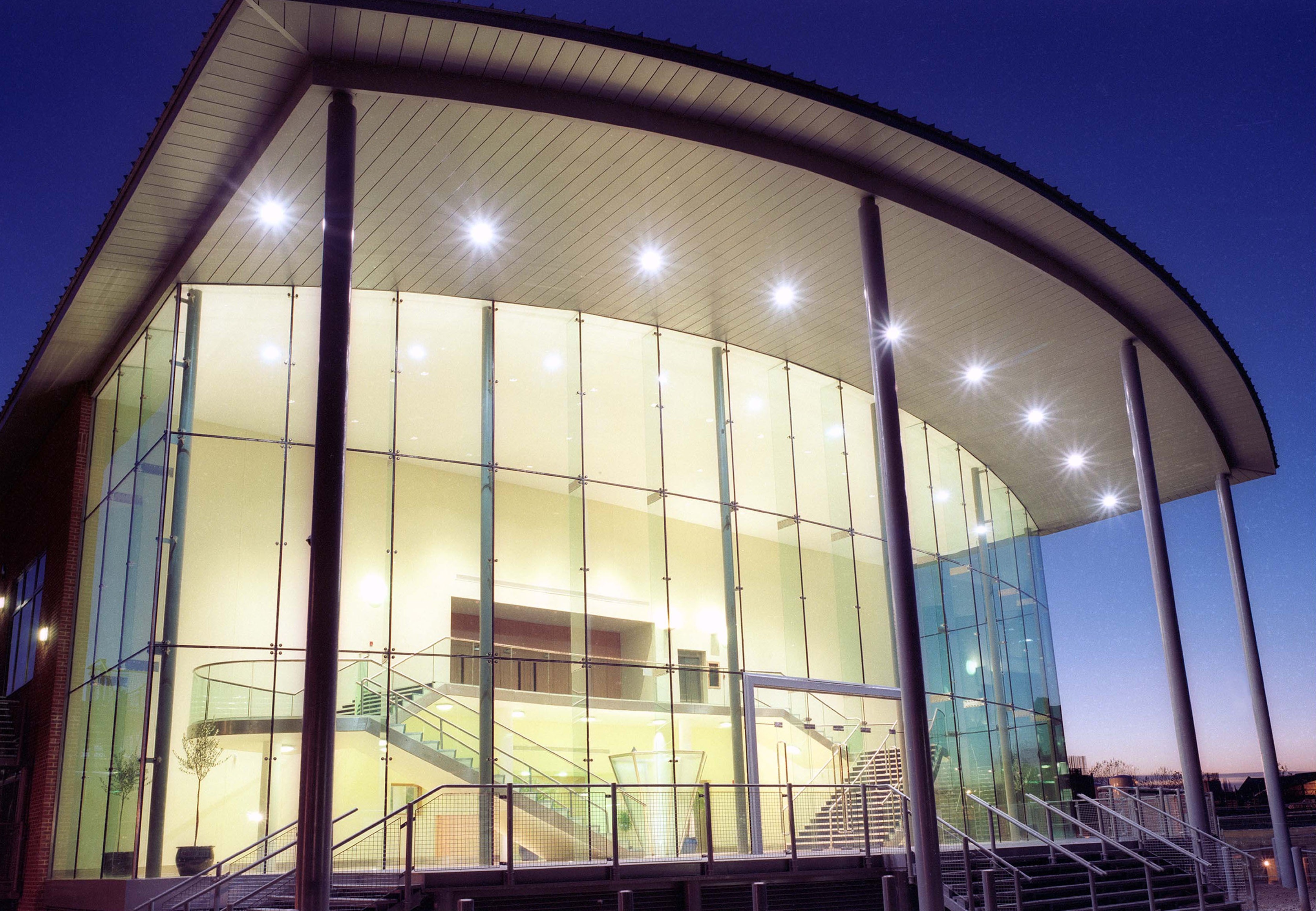 The River Centre is a prestigious, state-of-the-art venue, ideal for conferences, exhibitions, product launches, roadshows and meetings. Located in the centre of historic Tonbridge, at the heart of the South East of England, The River Centre offers some of the largest and most versatile facilities across Kent.